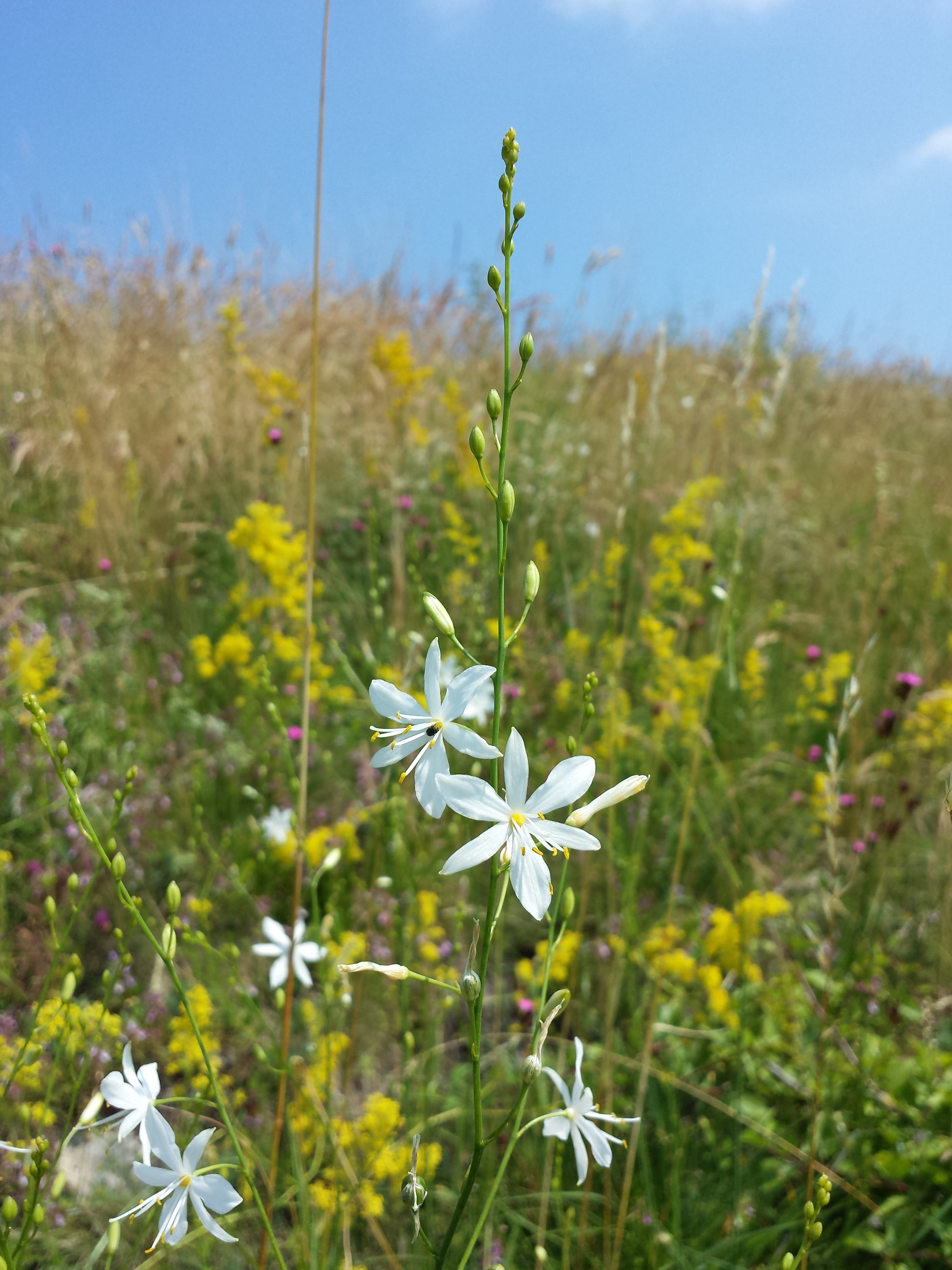 Florescence Taxon: Anthericum ramosum (sensu Fischer et al. EfÖLS 2008 ISBN 978-3-85474-187-9) Location: Leiser Berge, district Mistelbach, Lower Austria - ca. 450 m a.s.l. Habitat: rock steppe